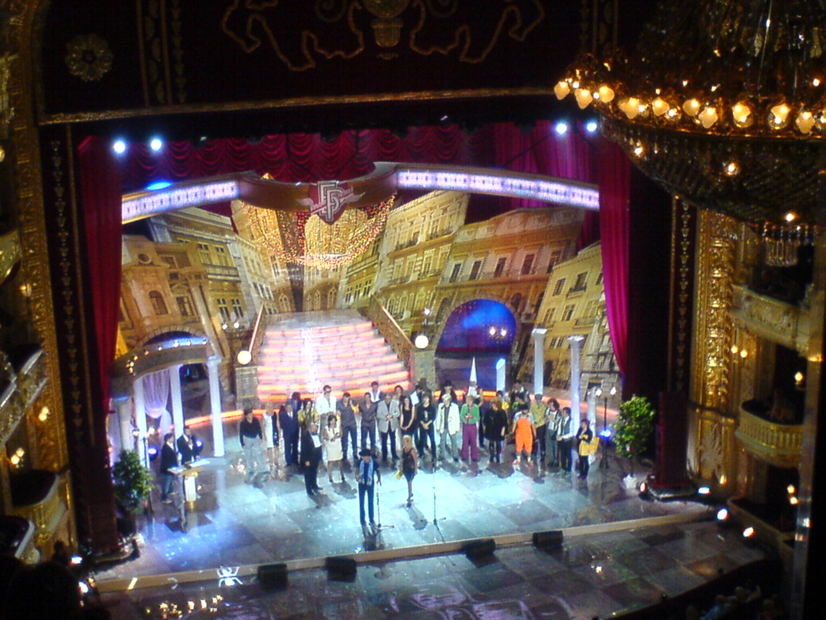 Mikhail Boyarsky award prizes to the winners of the festival «Big difference»